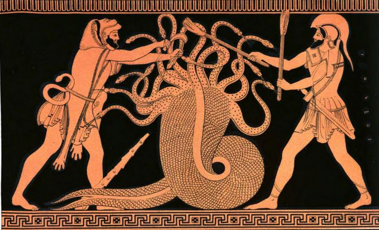 Heracles, Lernaean Hydra, Iolaus